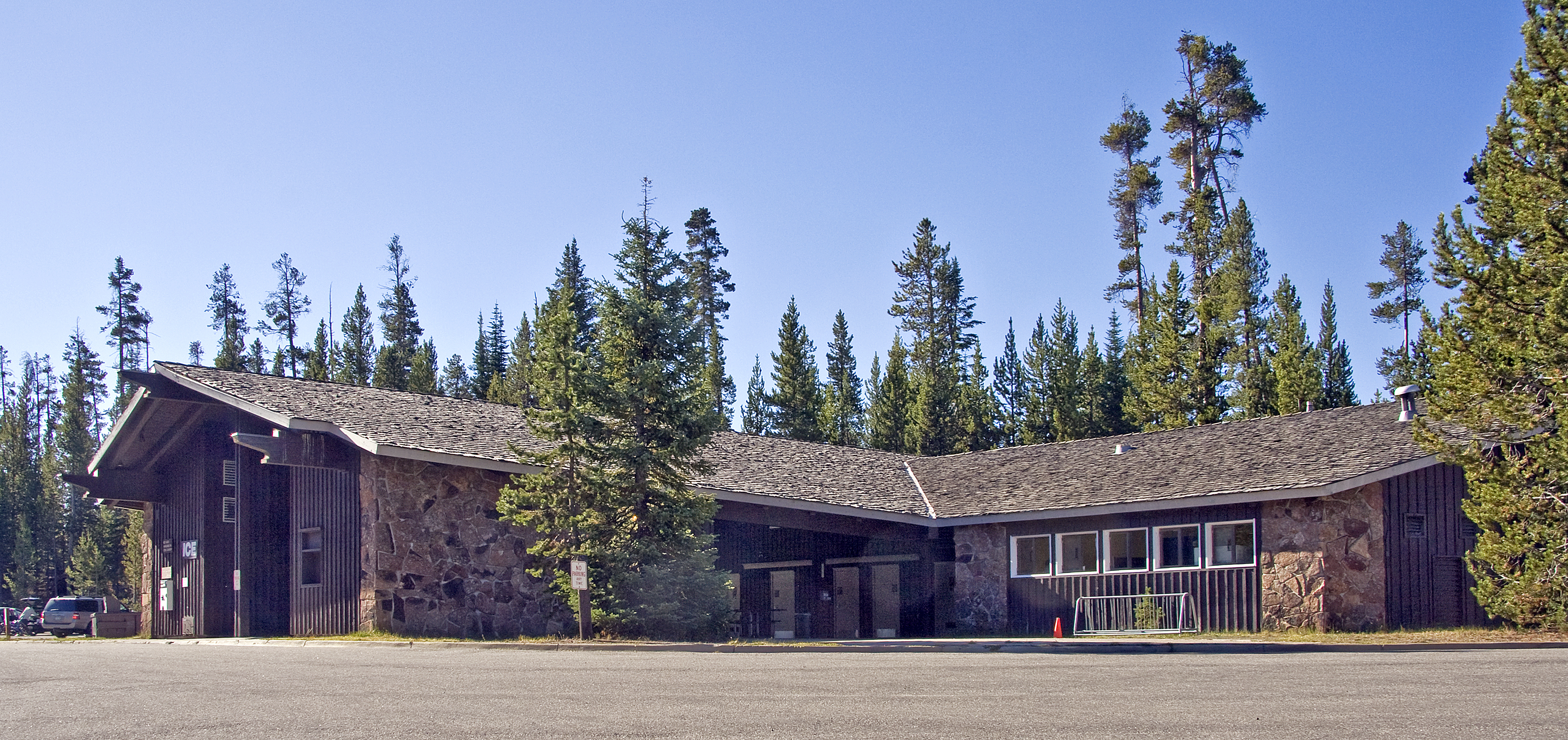 Camp center, Grant Village, Yellowstone National Park, Wyoming, USA